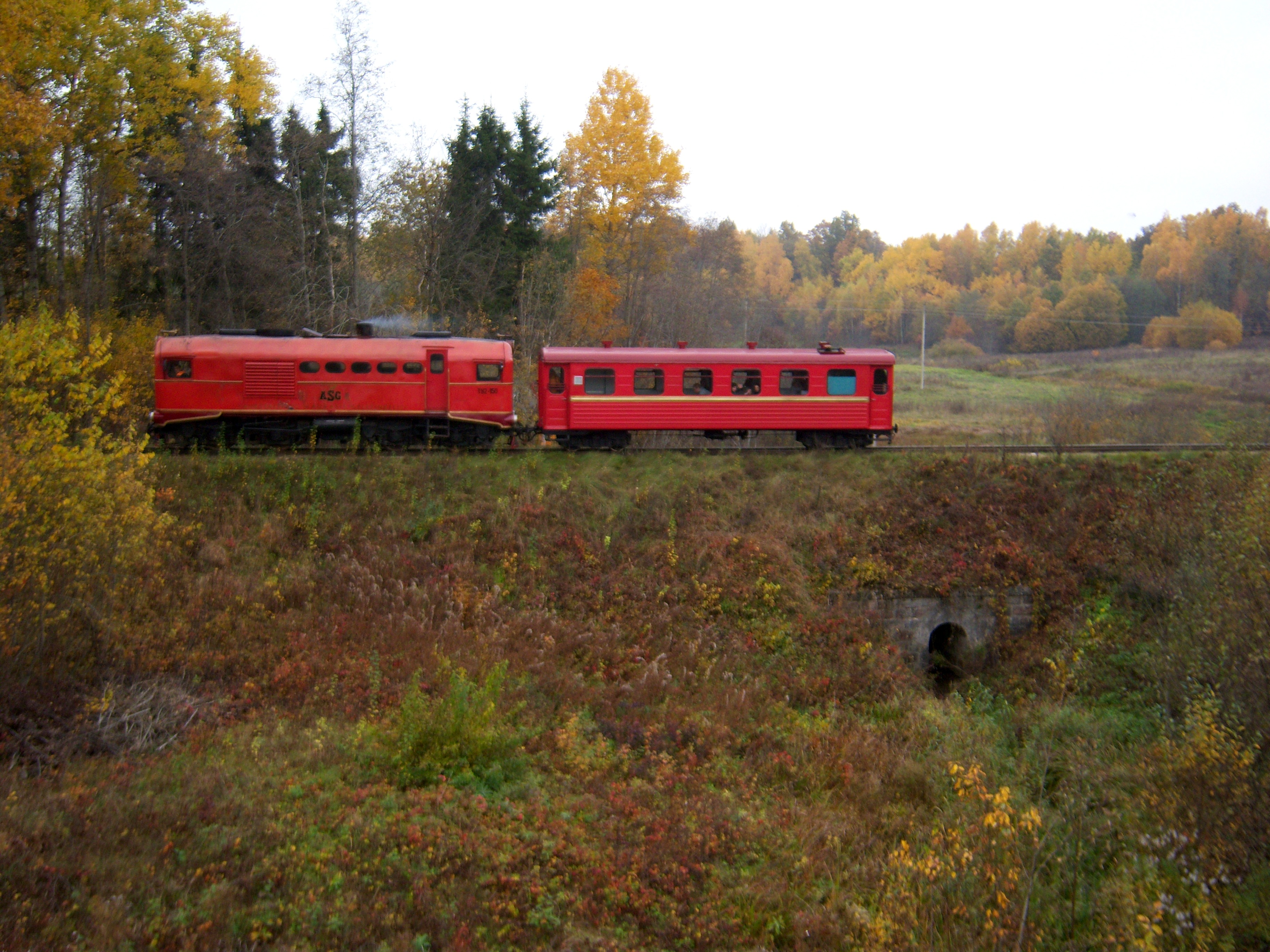 Narrow gauge railway, Bičionys, Anykščiai District. Lithuania